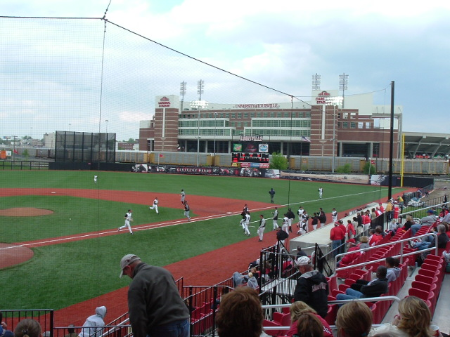 A game at Jim Patterson Stadium in 2005. Note the field turf on the entire field, except for the pitcher's mound. Taken by the uploader, Censusdata, in 2005; all rights released.